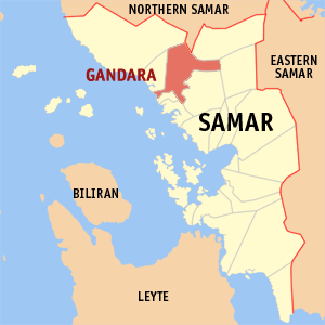 Map of Samar showing the location of Gandara